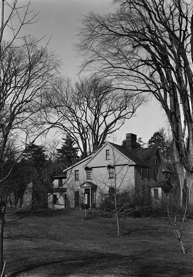 Orchard House, Concord, Massachusetts.